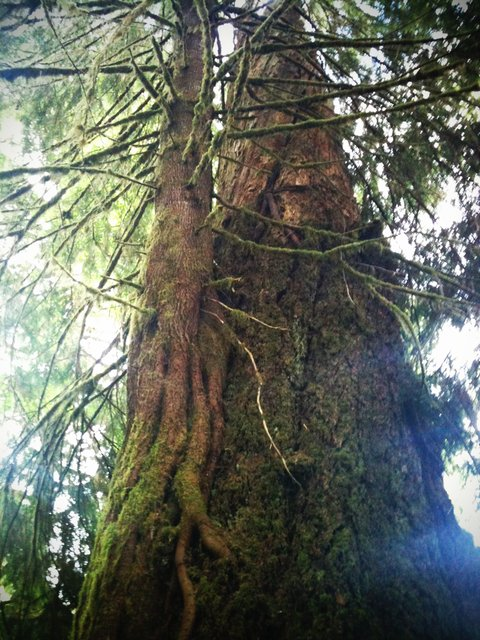 Young Tsuga heterophylla epiphytic on an older tree in the Hoh Rainforest